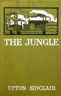 cover of the 1st edition of The Jungle by Upton Sinclair